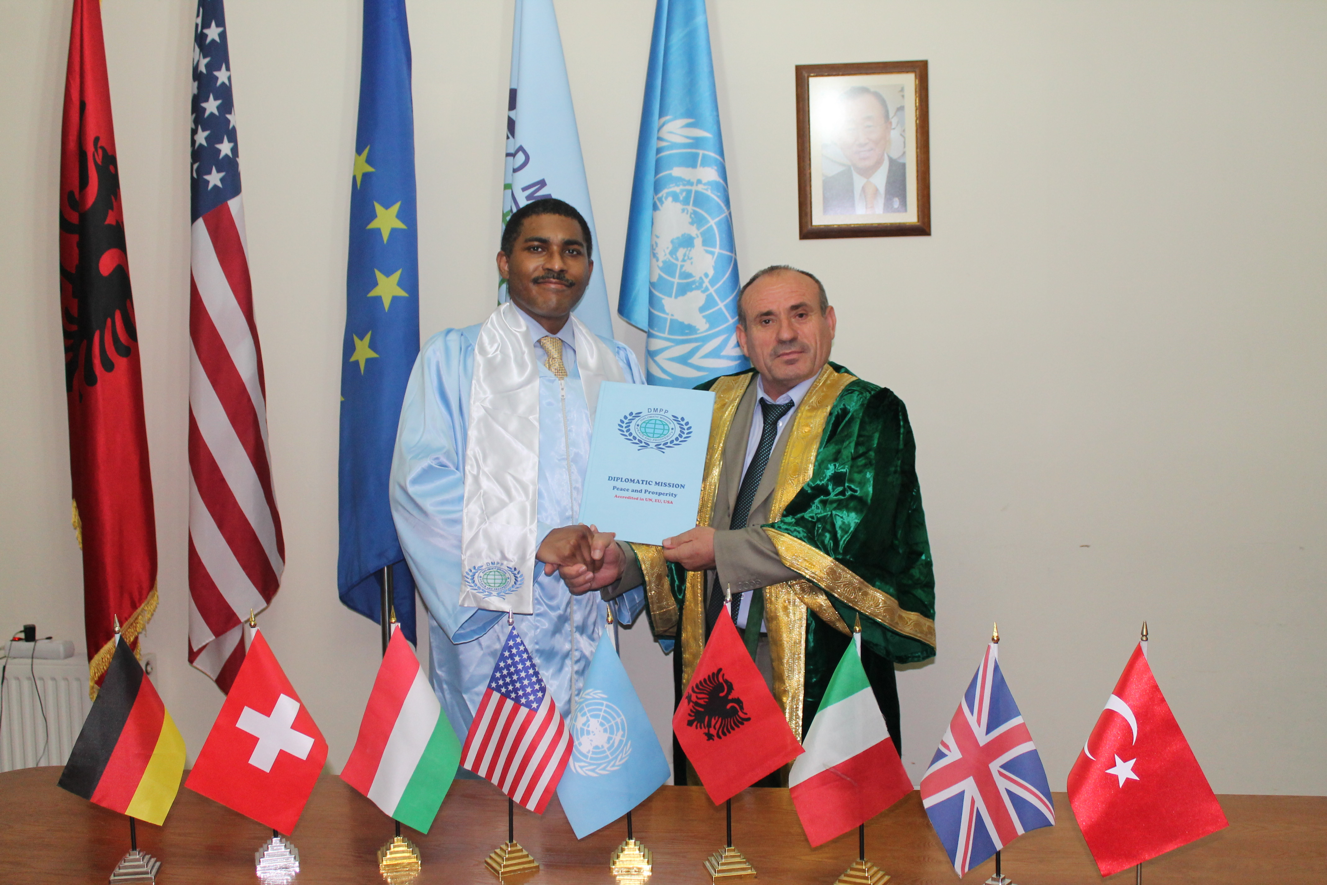 DMPP Governor Shefki Hysa & US Senate lobbyist Cary Lee Peterson 3